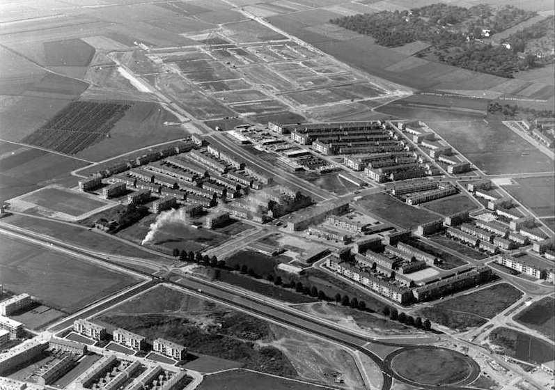 Aerial view of newly-built neighbourhoods in Maastricht-West in 1964. Bottom left: Pottenberg. Centre: Malpertuis. Top: Malberg (site preparation). Photo collection of RHCL Maastricht, ref. nr. GAM 5849.